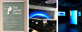 Teleperformance Innovation Experience Center in California.